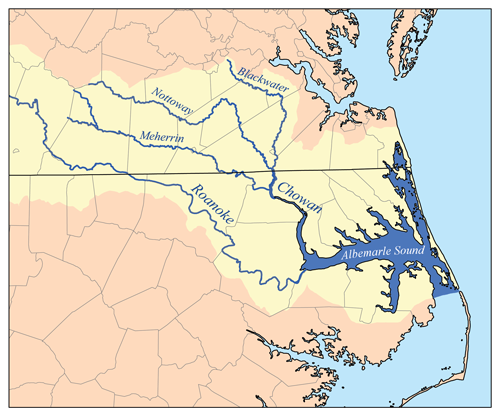 This is a map of eastern portion of the Chowan/Roanoke watershed, showing the Chowan, Meherrin, Nottoway and Blackwater rivers as well as Albemarle Sound. For the western portion of the watershed see Image:RoanokeRiverWatershed.png. I, Karl Musser, created it based on USGS data.